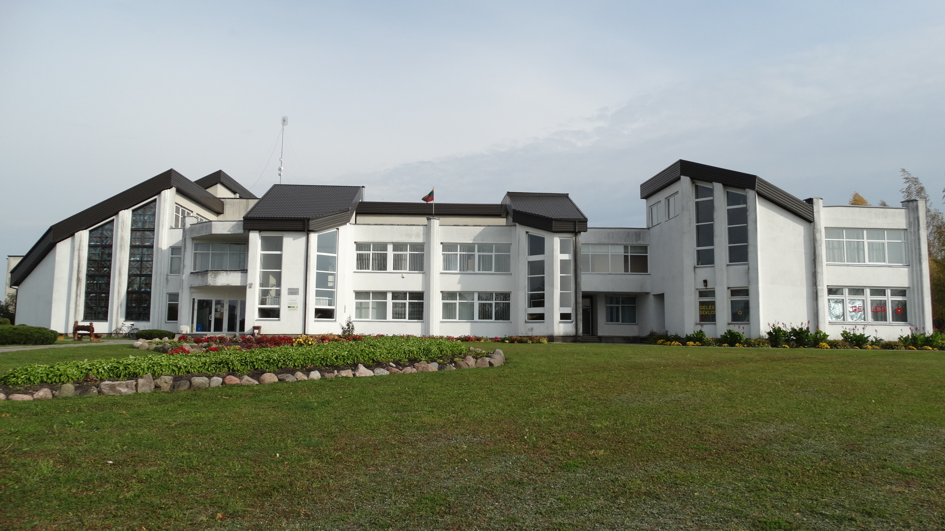 Eldership, Miroslavas, Alytus district, Lithuania